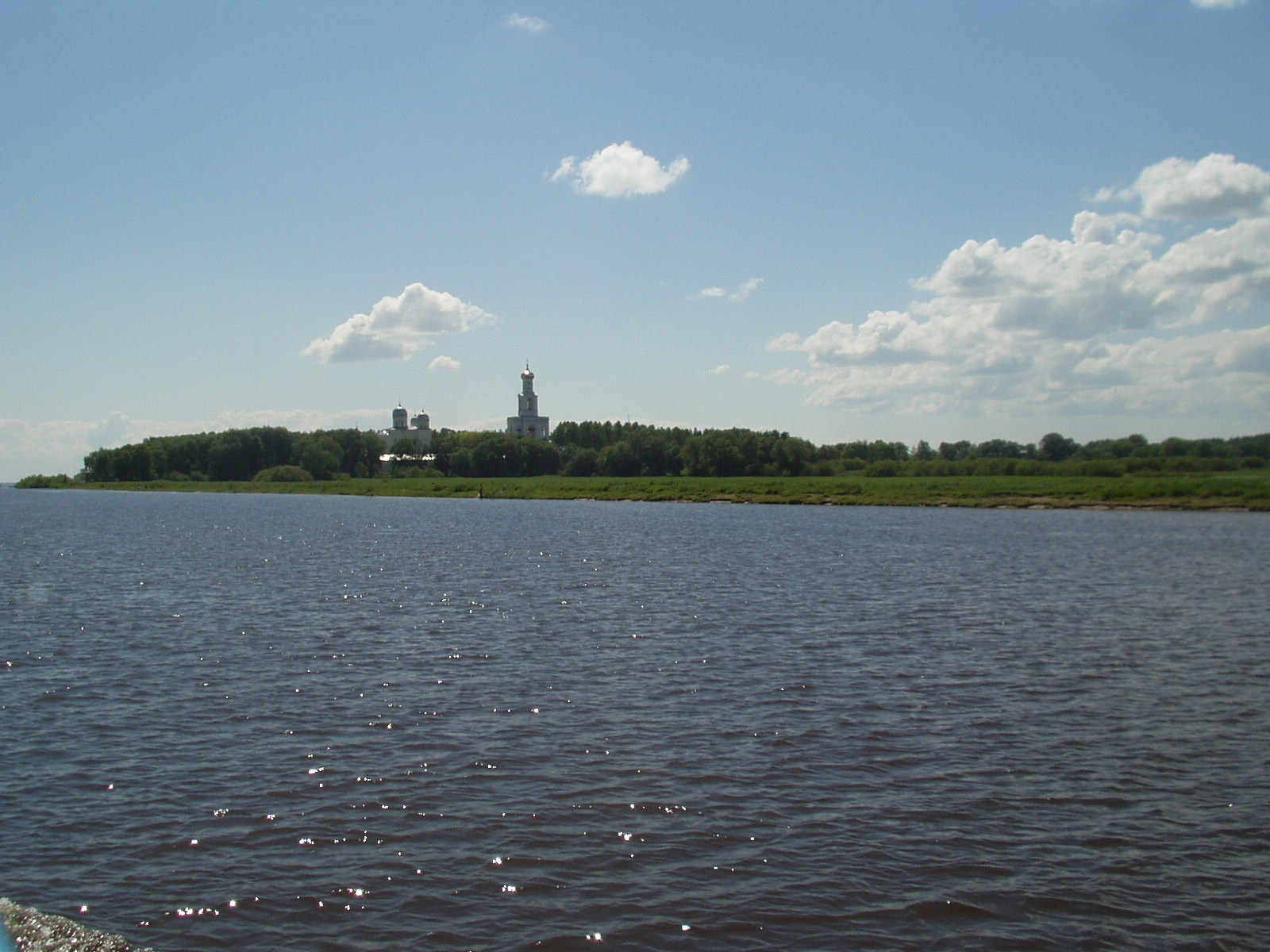 Taken be User:Goudzovski on June 13, 2006.